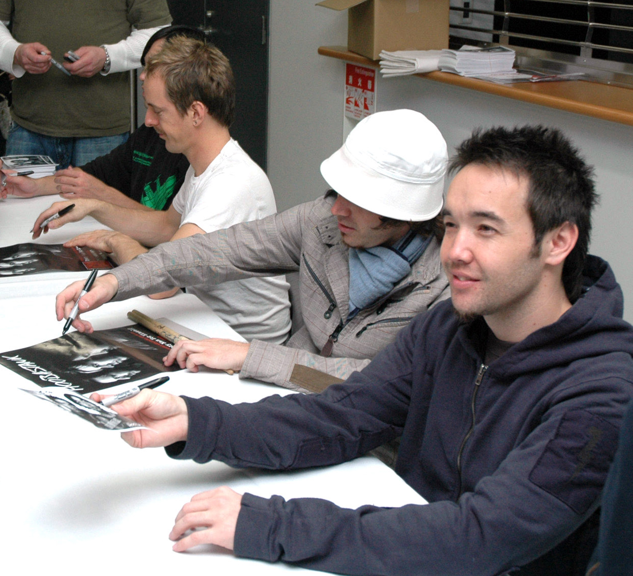 070123-N-2970T-005 Sasebo, Japan - Members of the band Hoobastank sign autographs for fans after their concert at Fleet Activities Sasebo (CFAS). The show, sponsored by Morale, Welfare and Recreation (MWR) was the band's first time to play for a Navy audience.